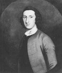 William Livingston